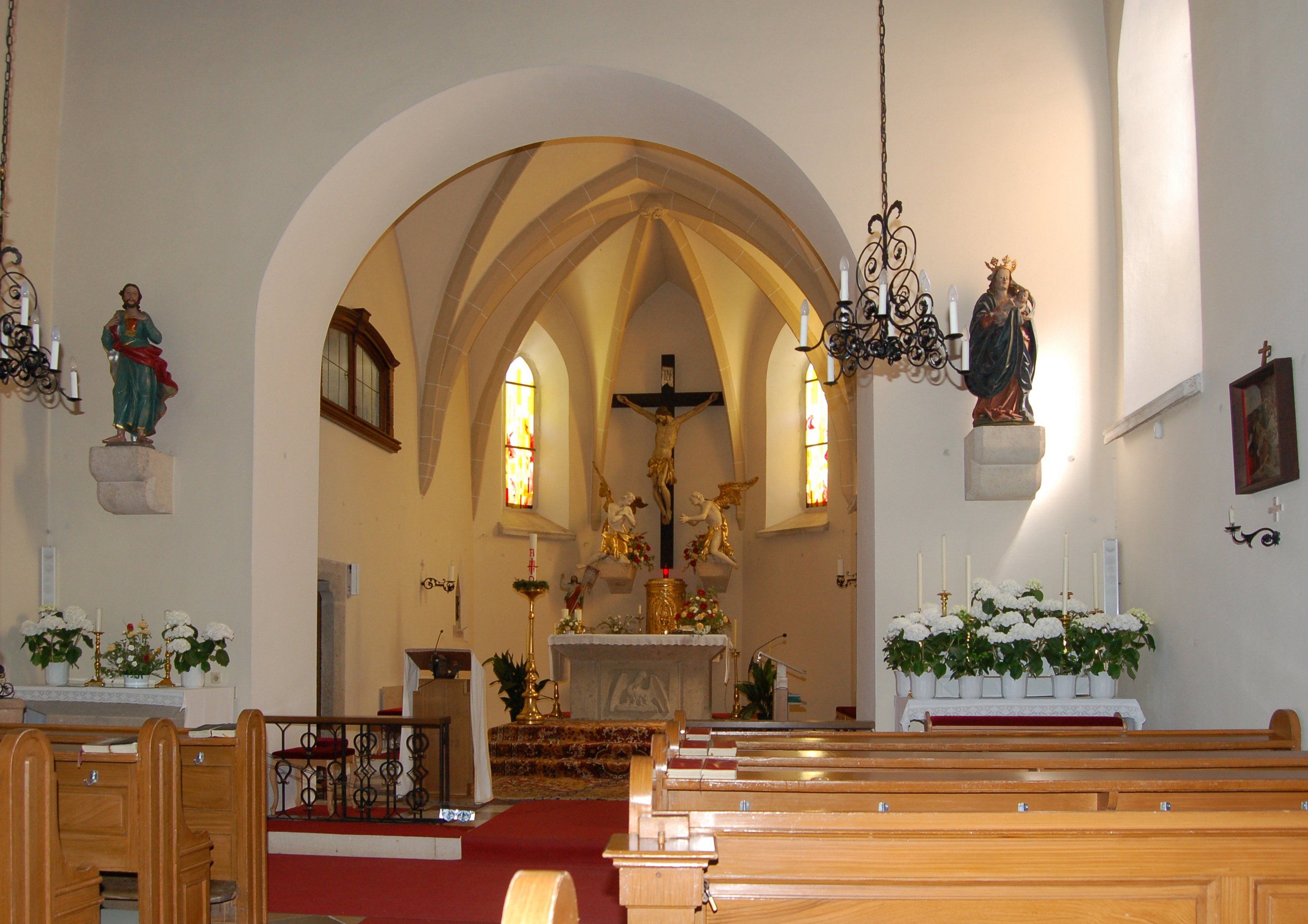 The catholic parish church Saint Laurenz in Hernstein, Lower Austria, is protected as a cultural heritage monument.